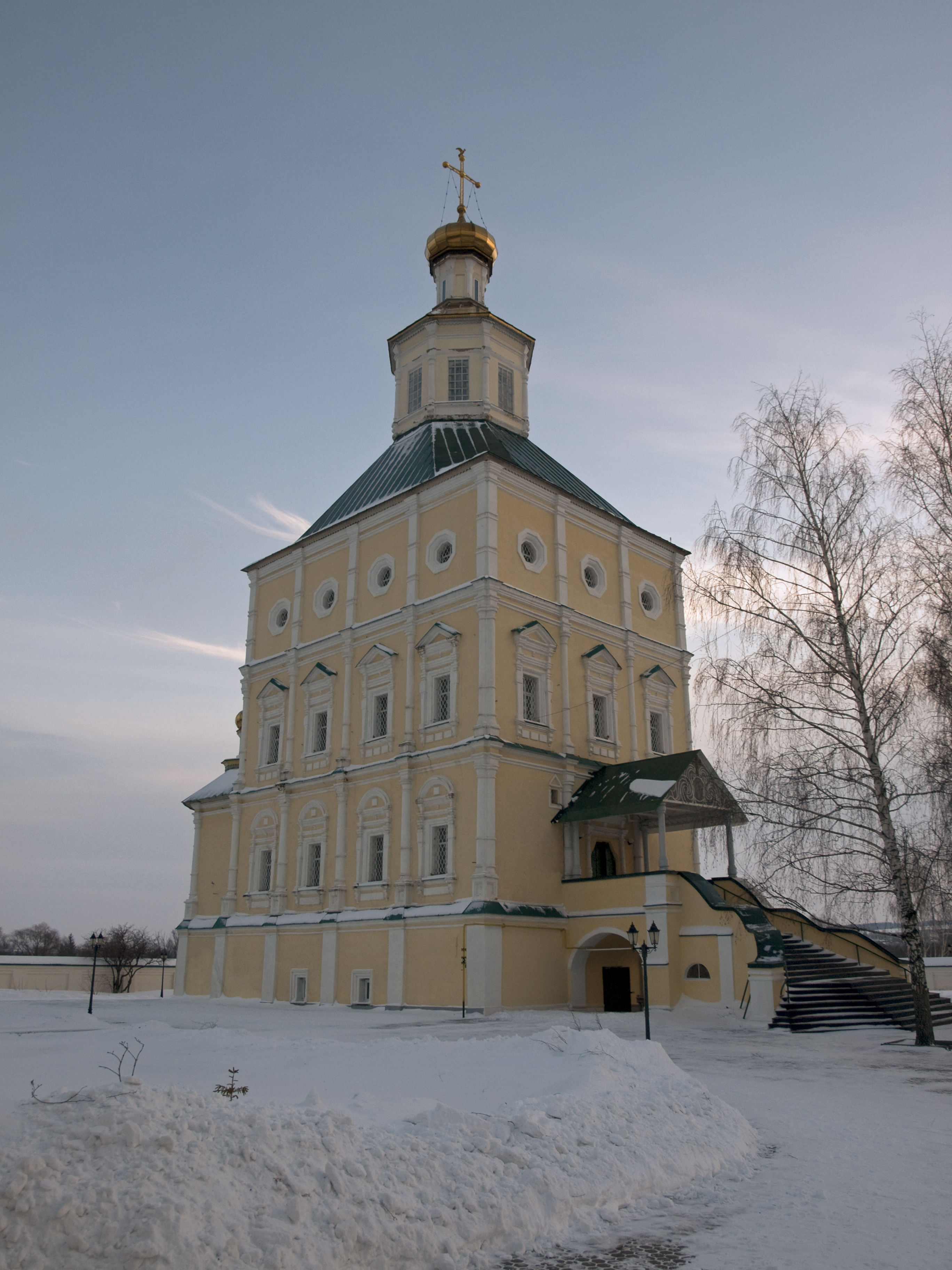 Cathedral of John the Evangelist (1704), Monastery Monastery of John the Evangelist in Makarovka